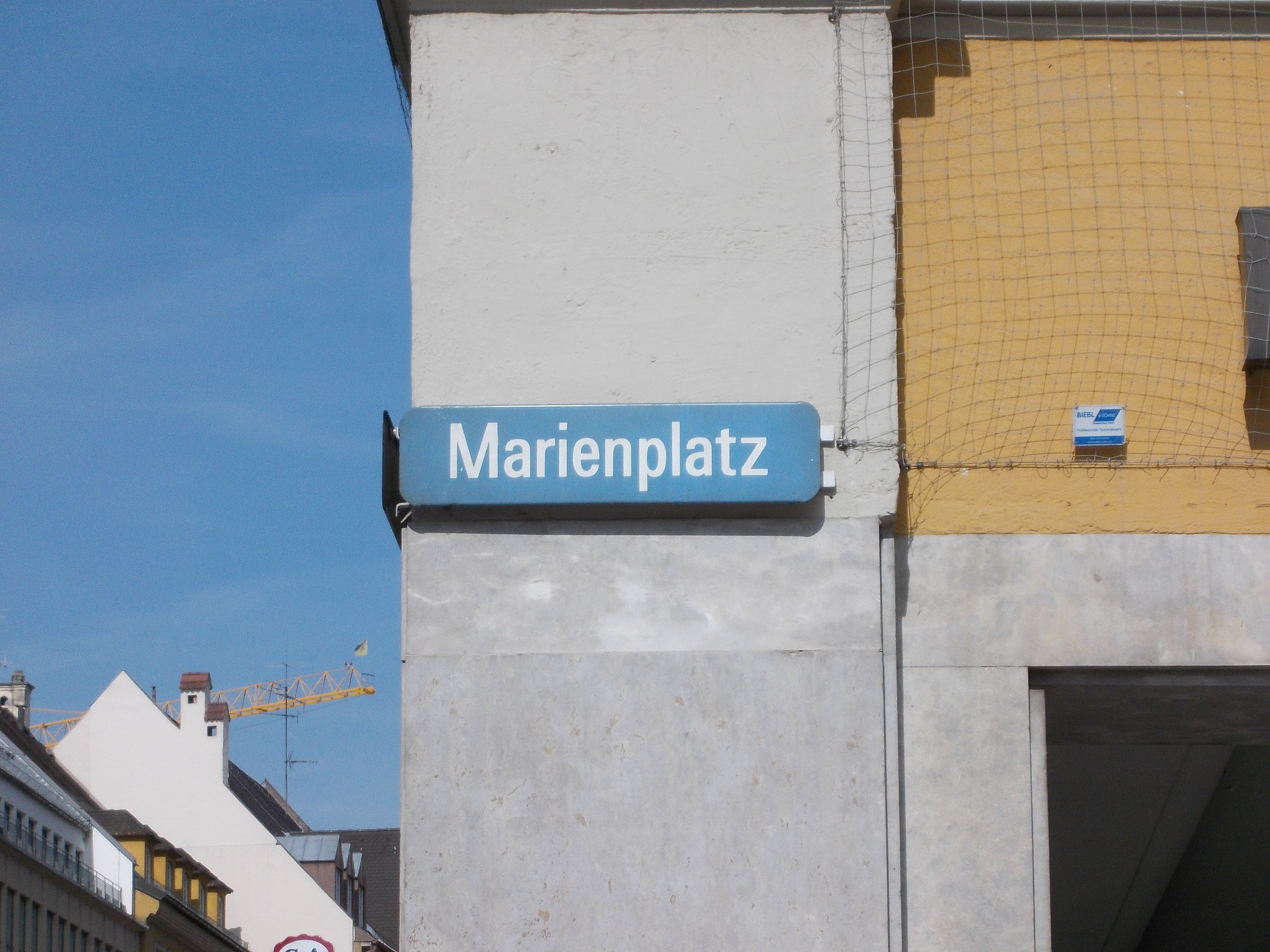 Marienplatz sign